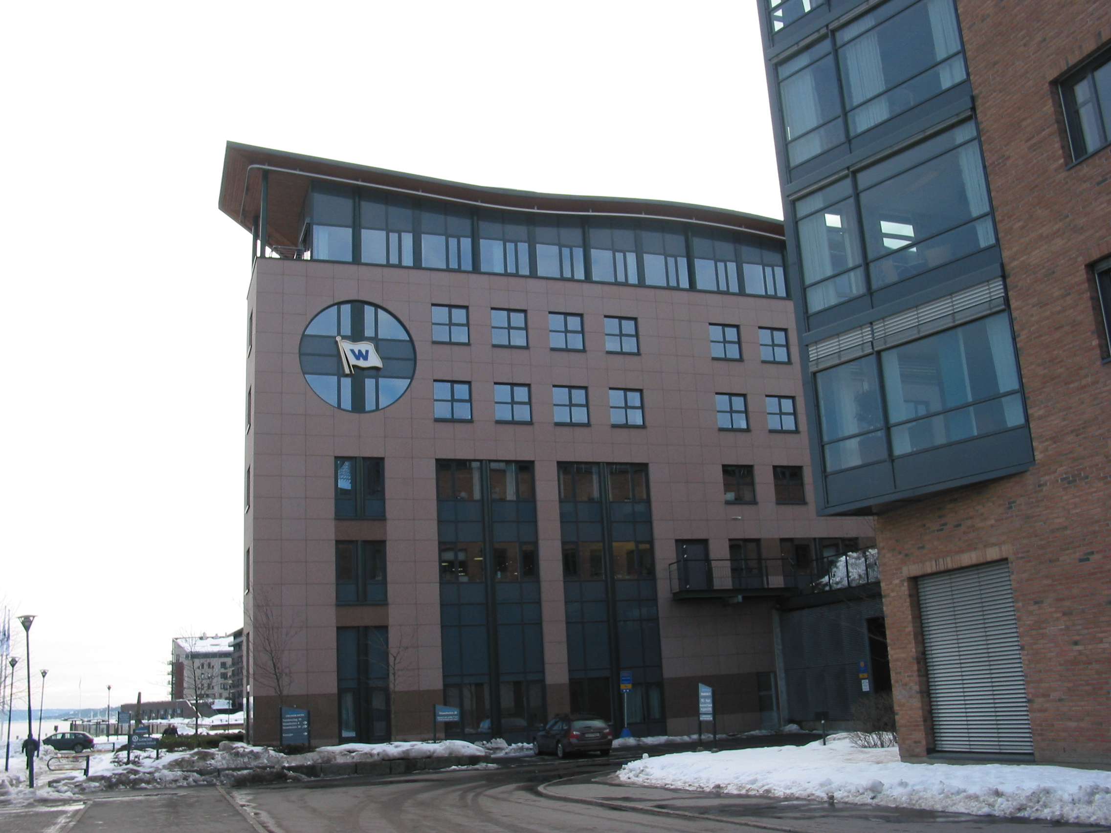 The headquarters of the company Wilh Wilhelmsen, at Lysaker.